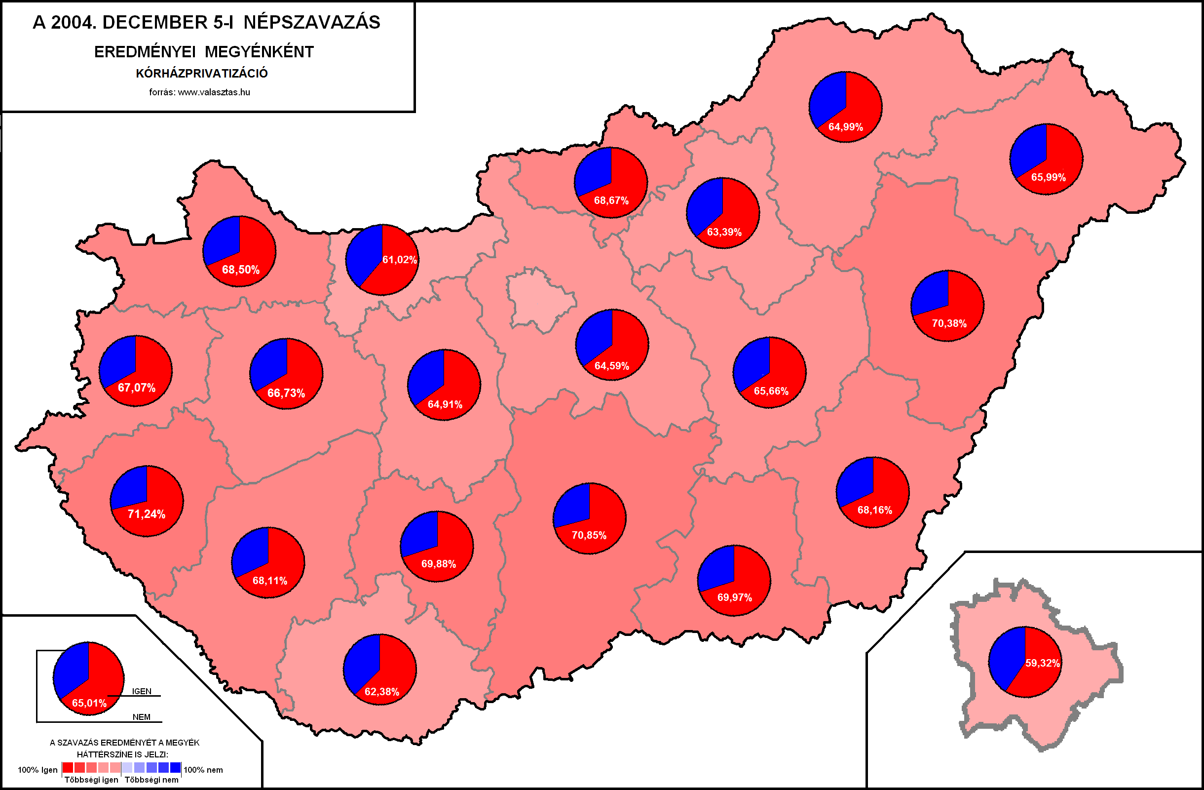 The 2004 Hungarian referendum, Results by county; Banning the privatisation of hospitals